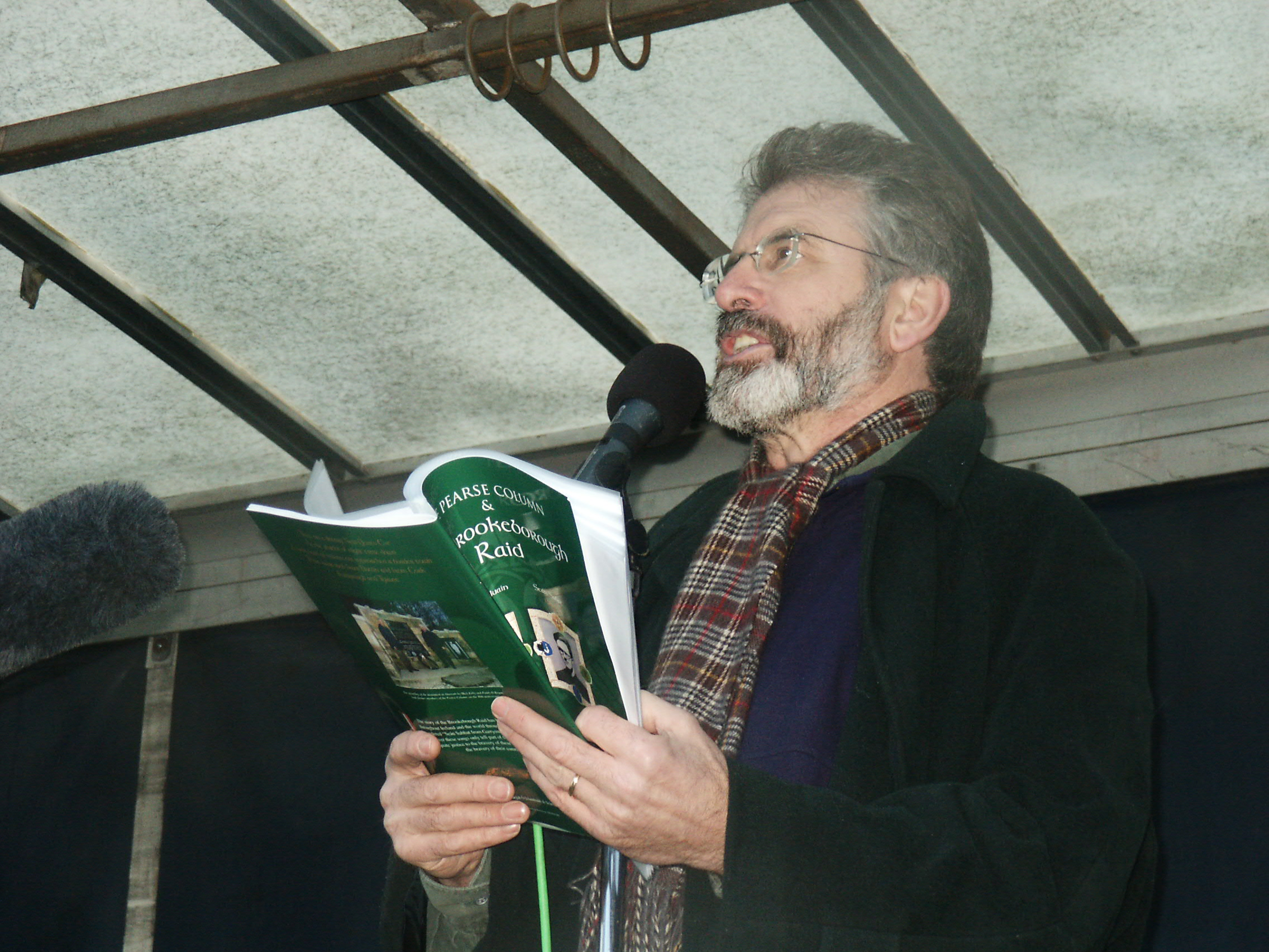 Gerry Adams at the Fermanagh Commemoration, reading aloud into a microphone.